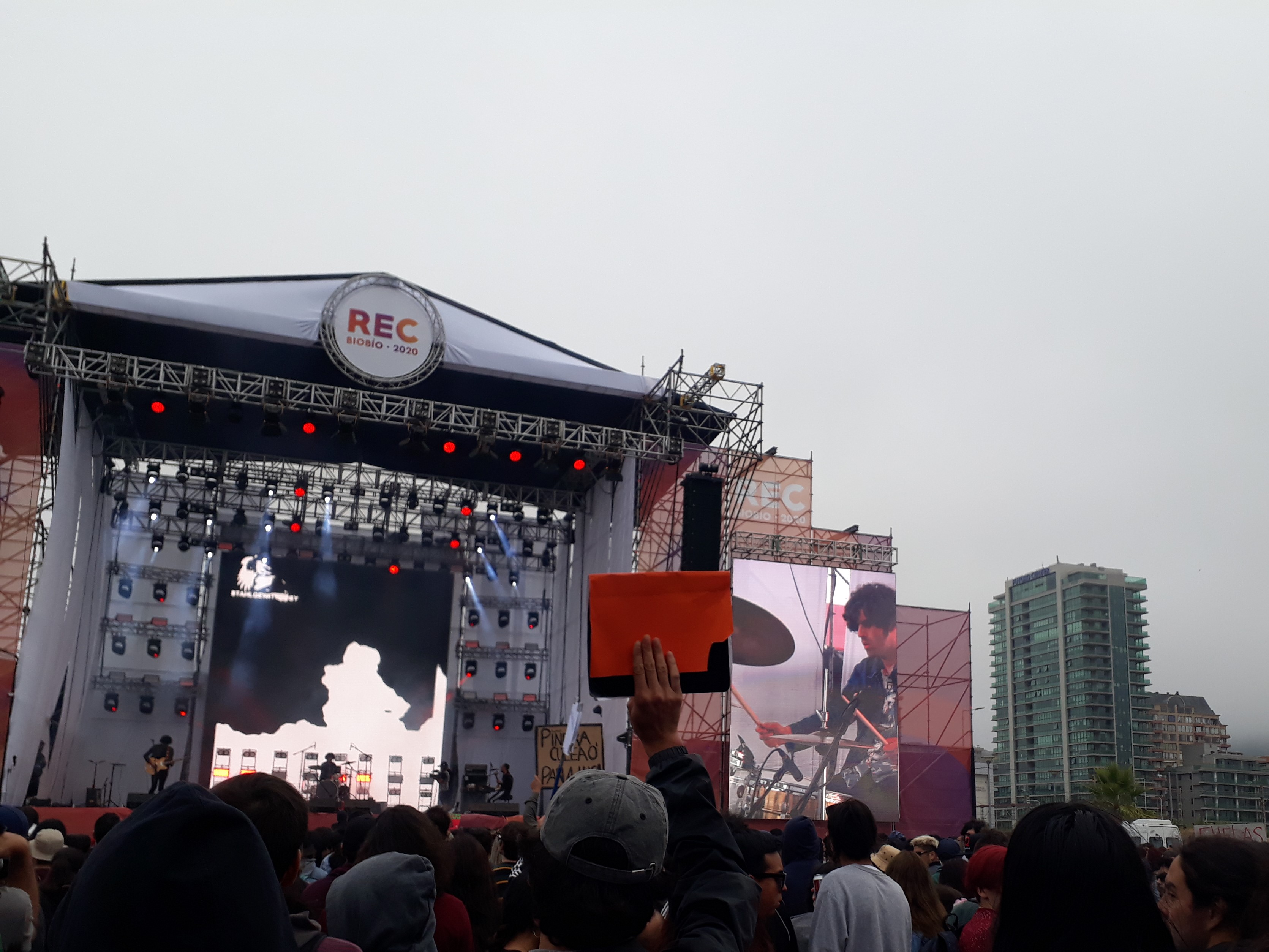 Rock en Conce (REC) festival stage during its 2020 version.